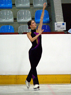 Olga Ikonnikova during her short program at the 2006 Junior Grand Prix event in The Hague, Netherlands